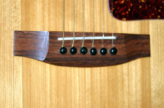 This fixed guitar bridge and tailpiece assembly not only raises the strings above the sound board but also is their point of attachment to the instrument.